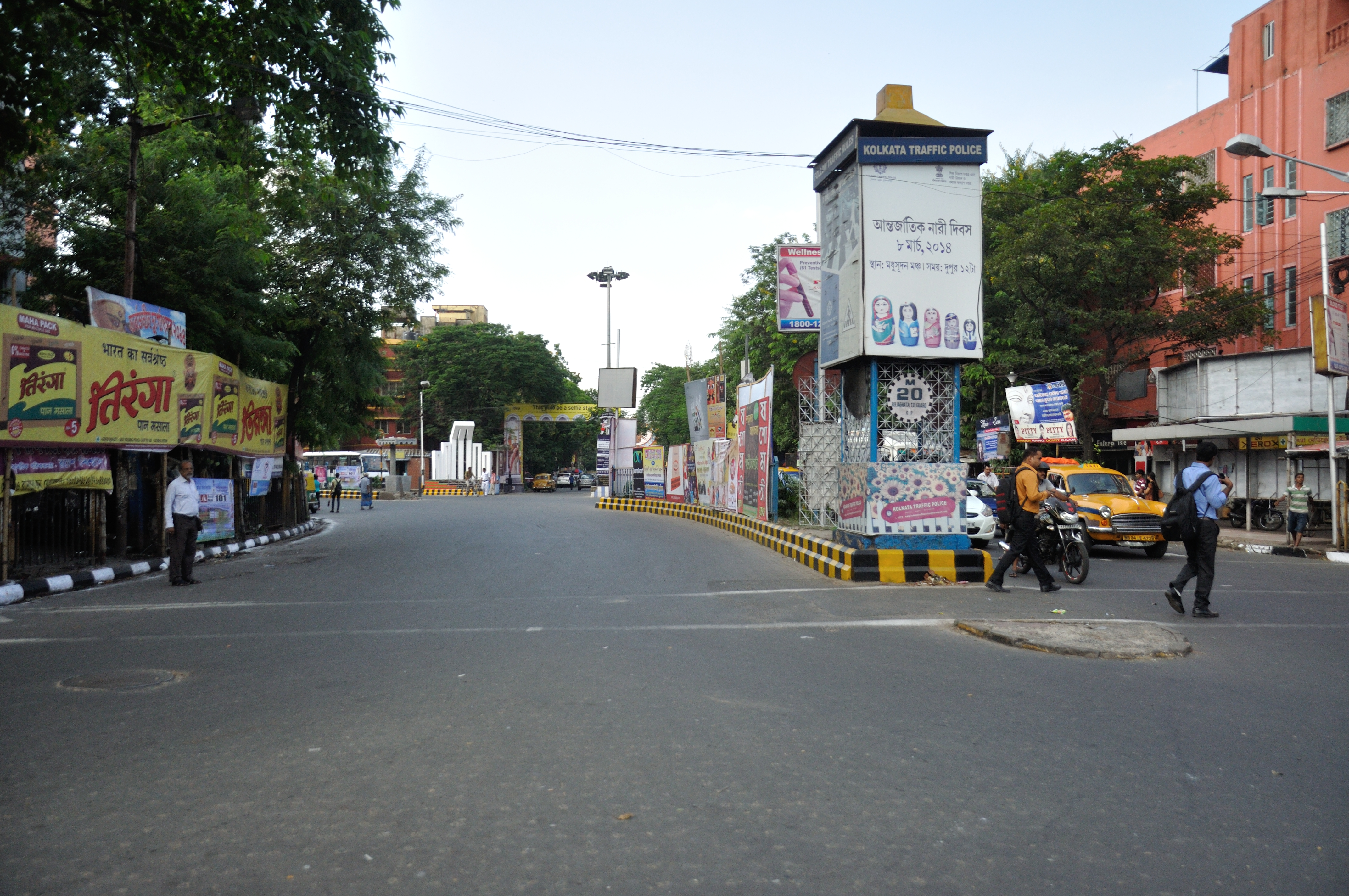 This photograph was taken in Kolkata.